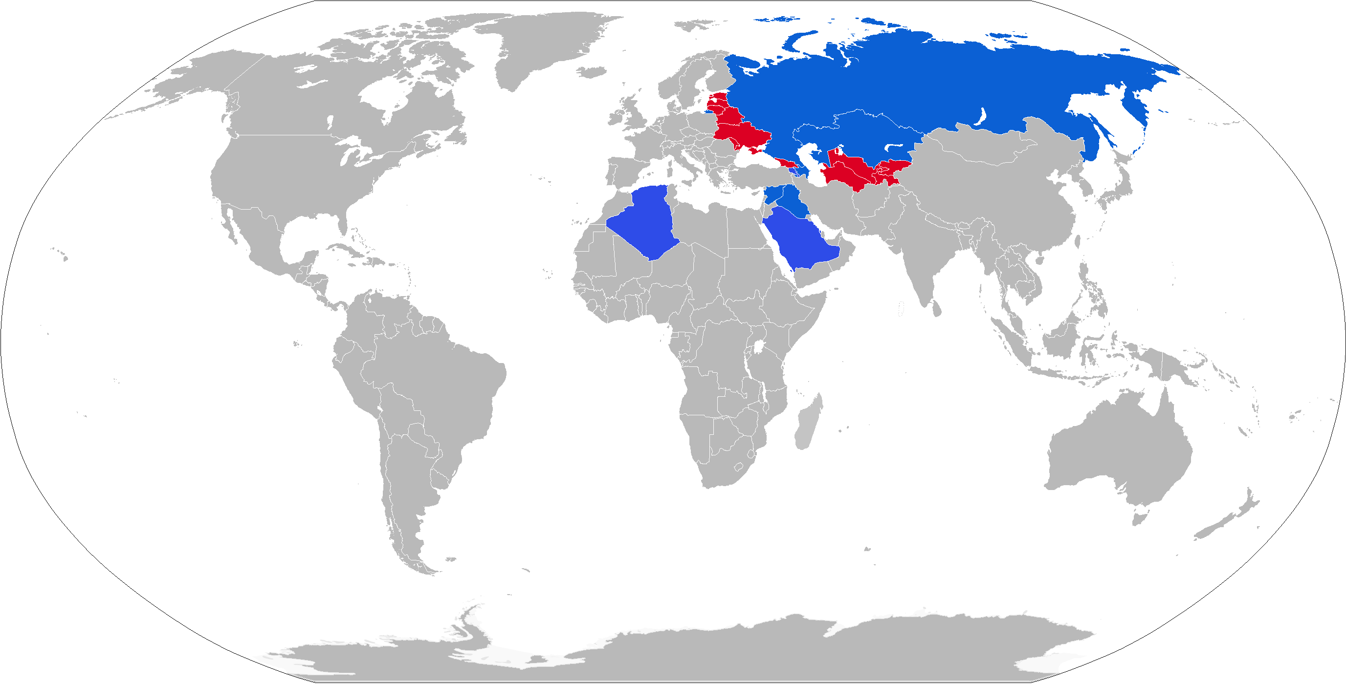 Map with TOS-1 operators in blue